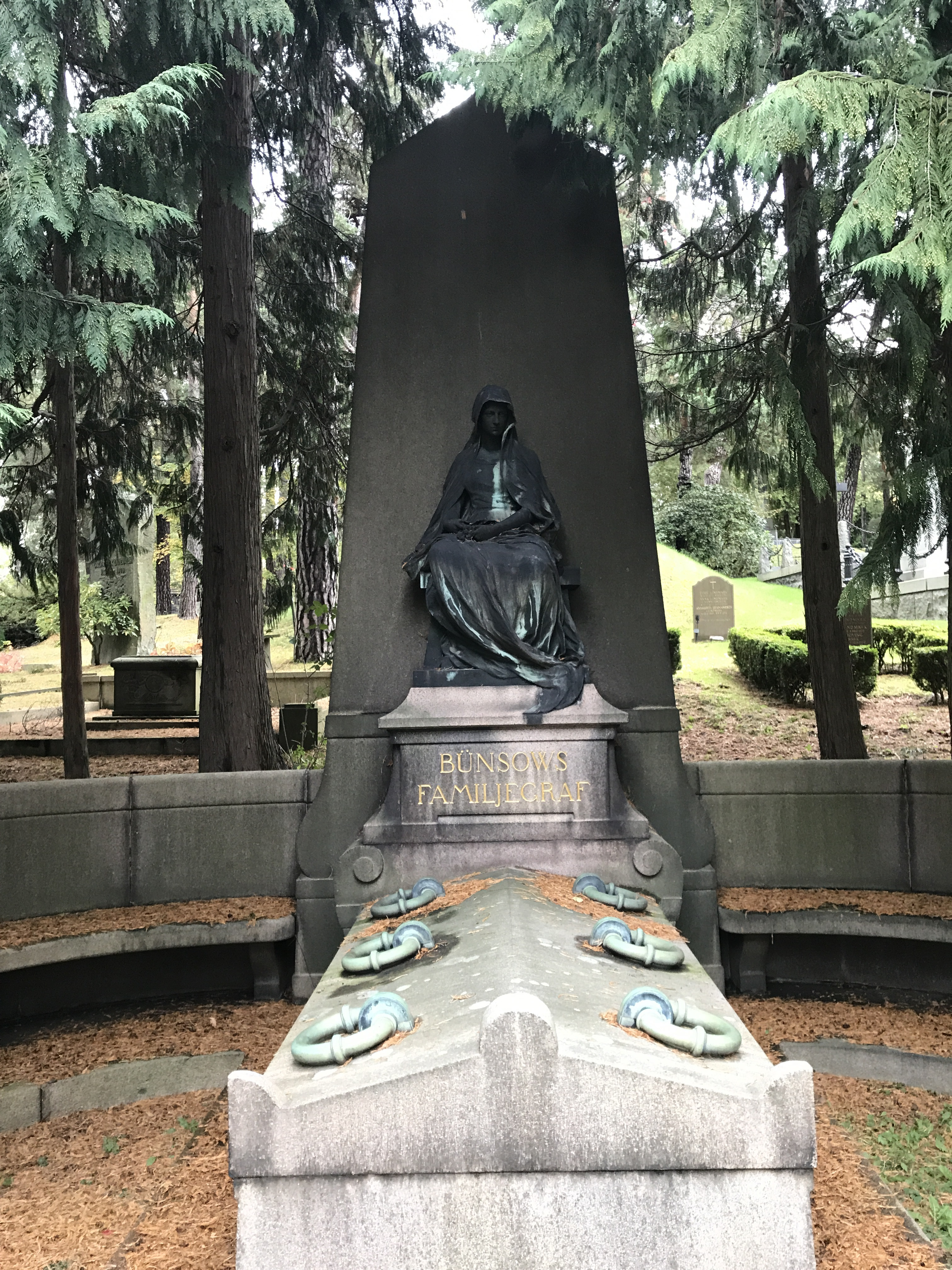 Grave kv 21 A 116